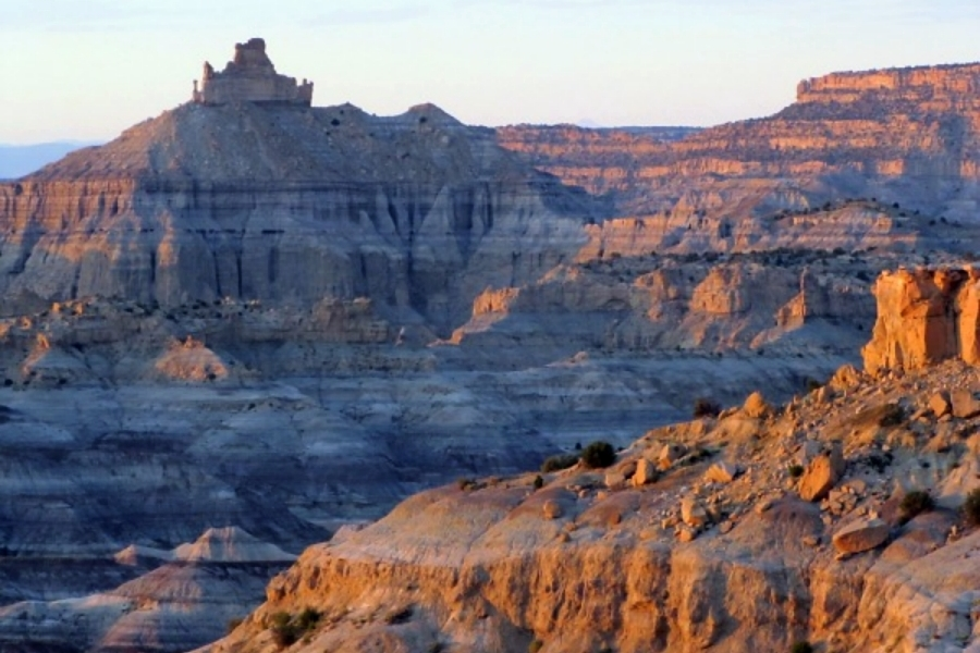 Angel Peak Scenic Area